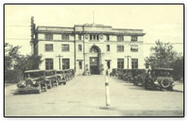 Union Station, constructed of Tyndall stonework, replaced its predecessor in 1911. It acquired its name because the facilities were designed to accommodate both the Canadian Pacific Railroad and the newly formed Canadian Northern Railway. Other information The company which built the building and may have been responsible for the photo no longer exists.